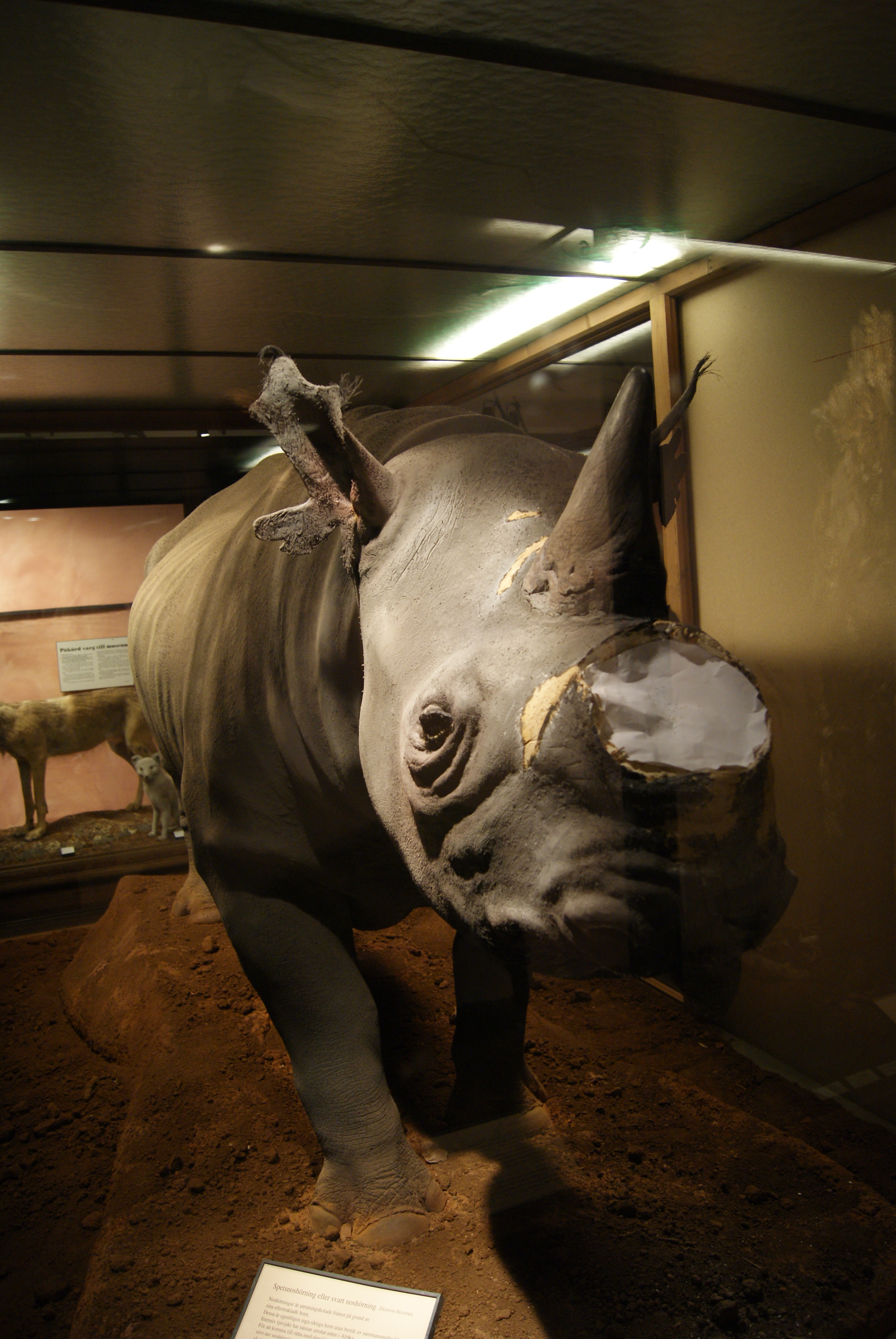 The horn of the Rhinoceros was stolen on July 23, 2011 from the showcase when it was on display in Göteborgs Naturhistoriska museum (Gothenburg Museum of Natural History).